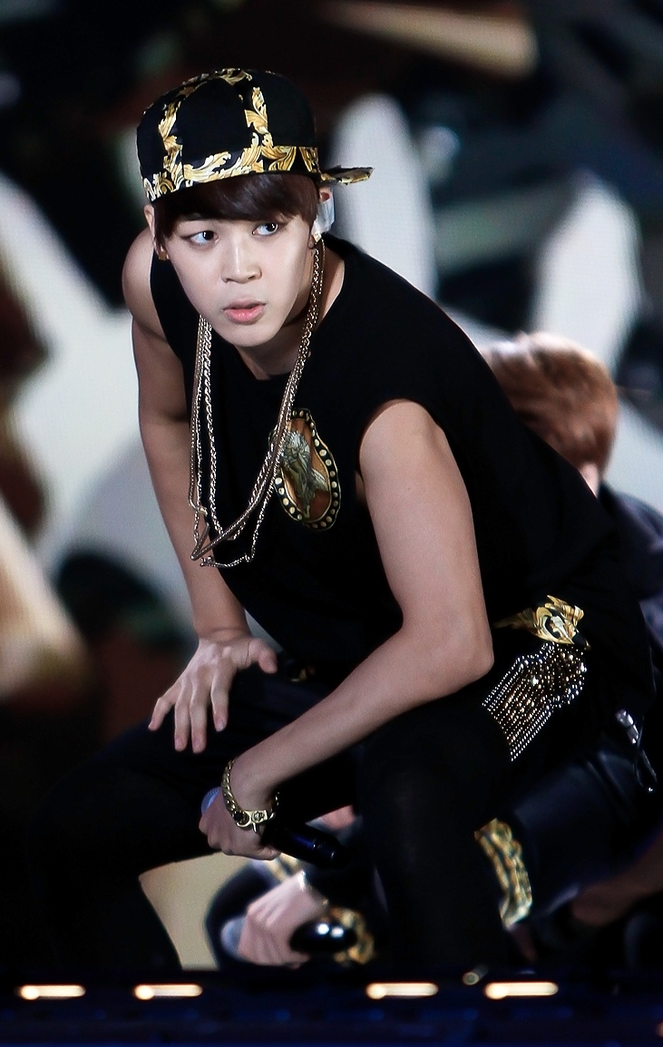 Jimin at Incheon Korean Music Wave September 1, 2013.